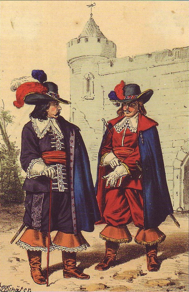 A captain and subaltern of Electress Dorothea's Own Brandenburg Infantry, ca. 1675